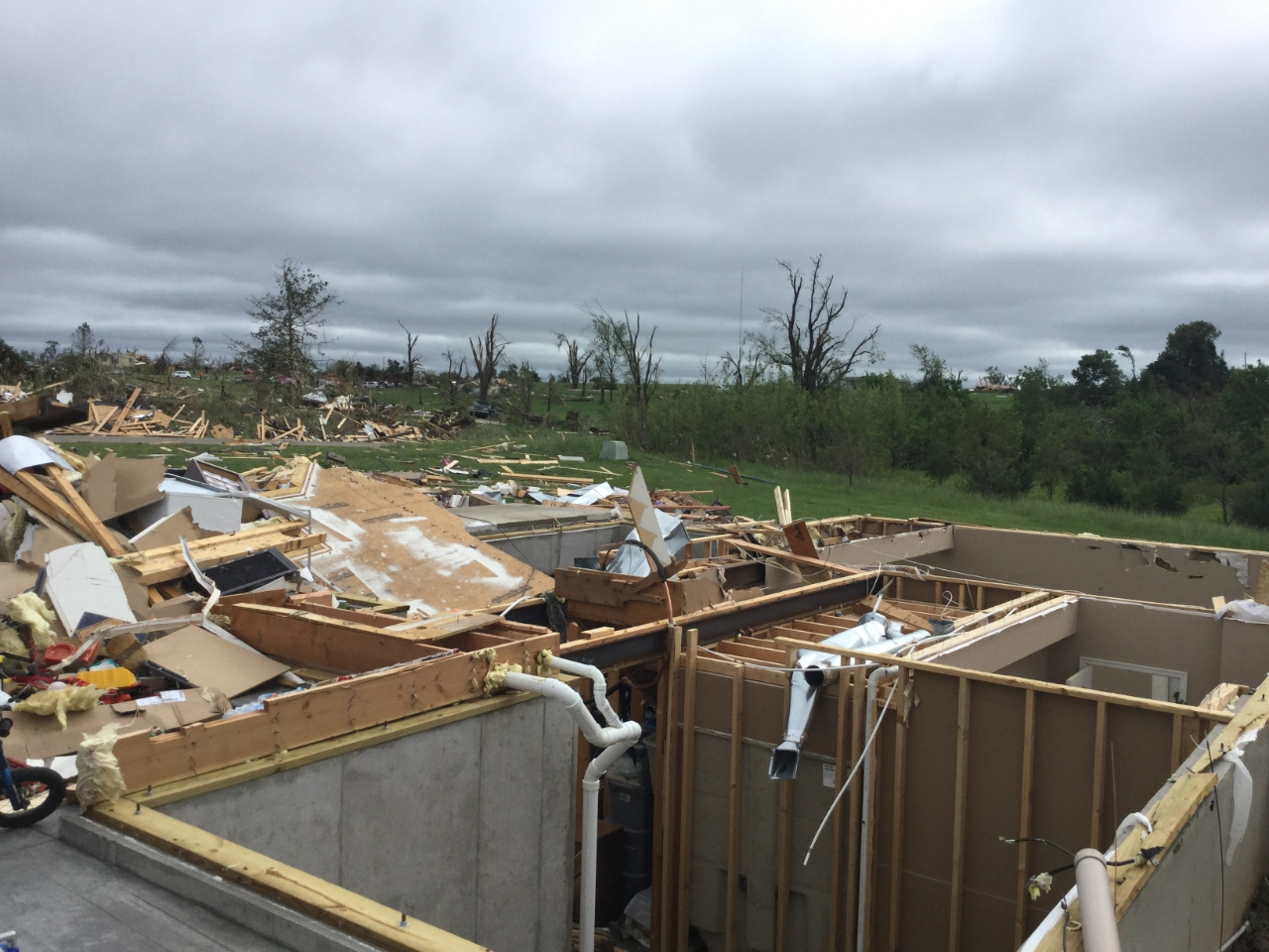 A home in Linwood, Kansas, that was leveled by a violent tornado on May 28, 2019